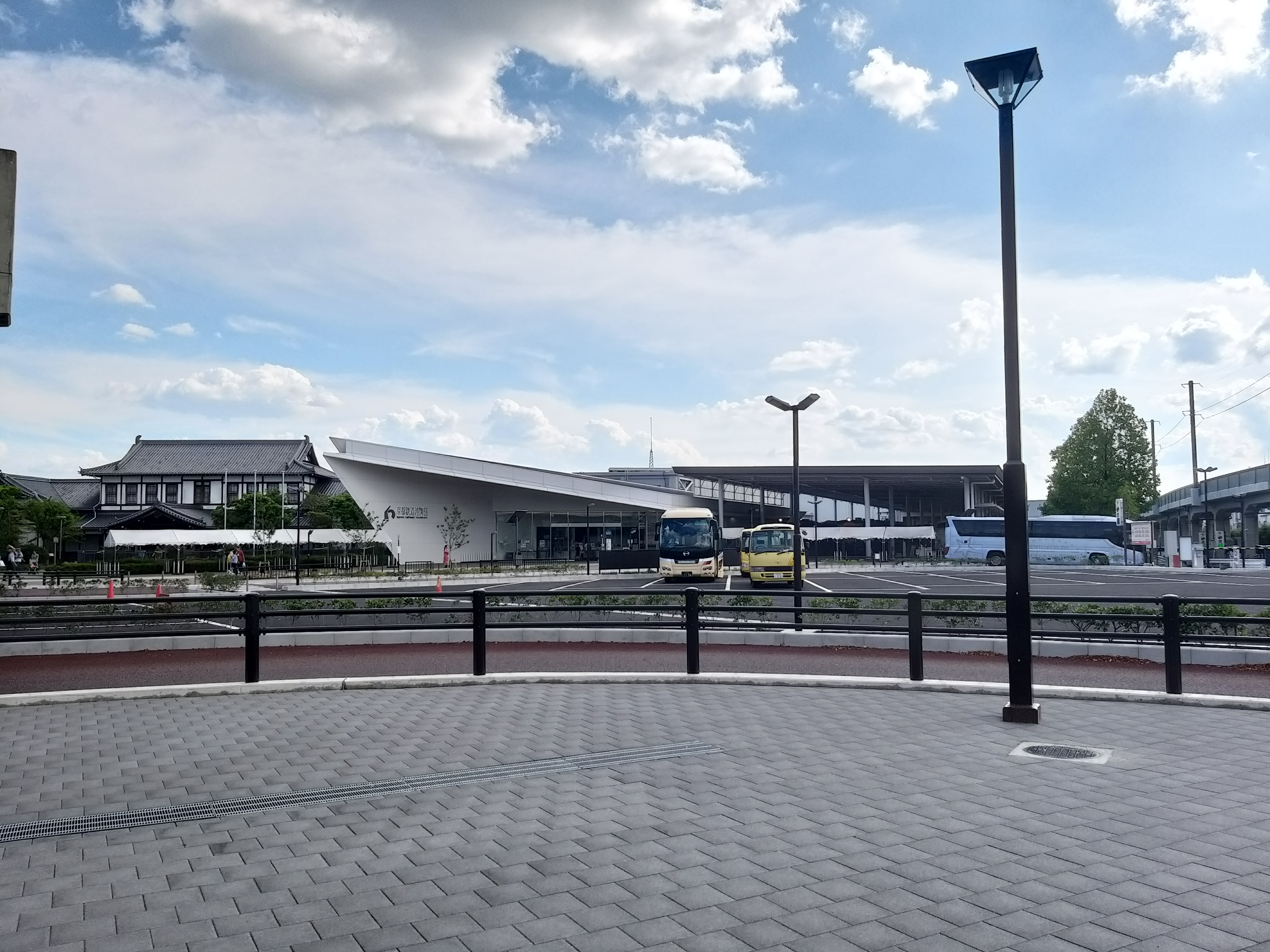 kyoto railway museum outside